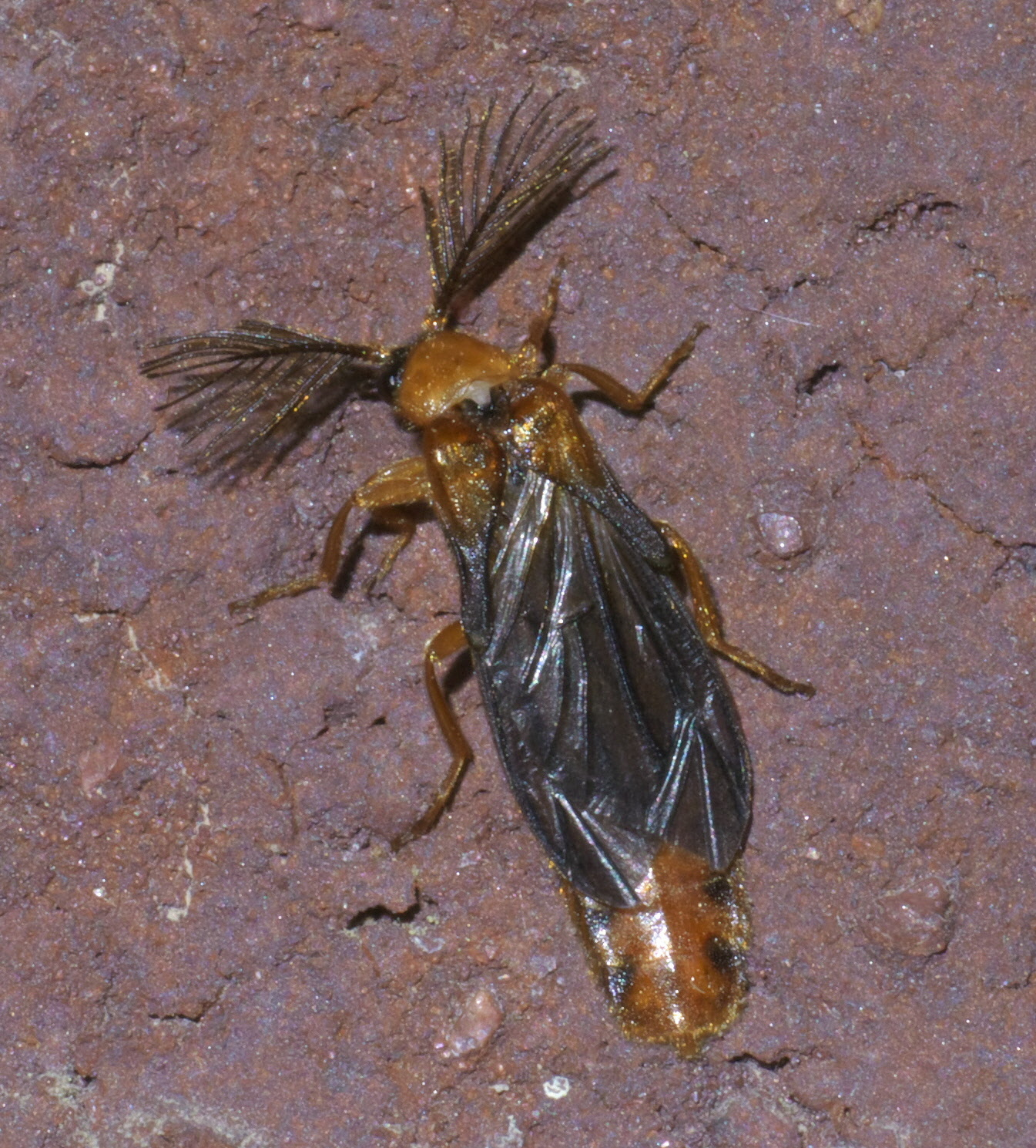 Phengodes, glowworms, ID Confidence: 98